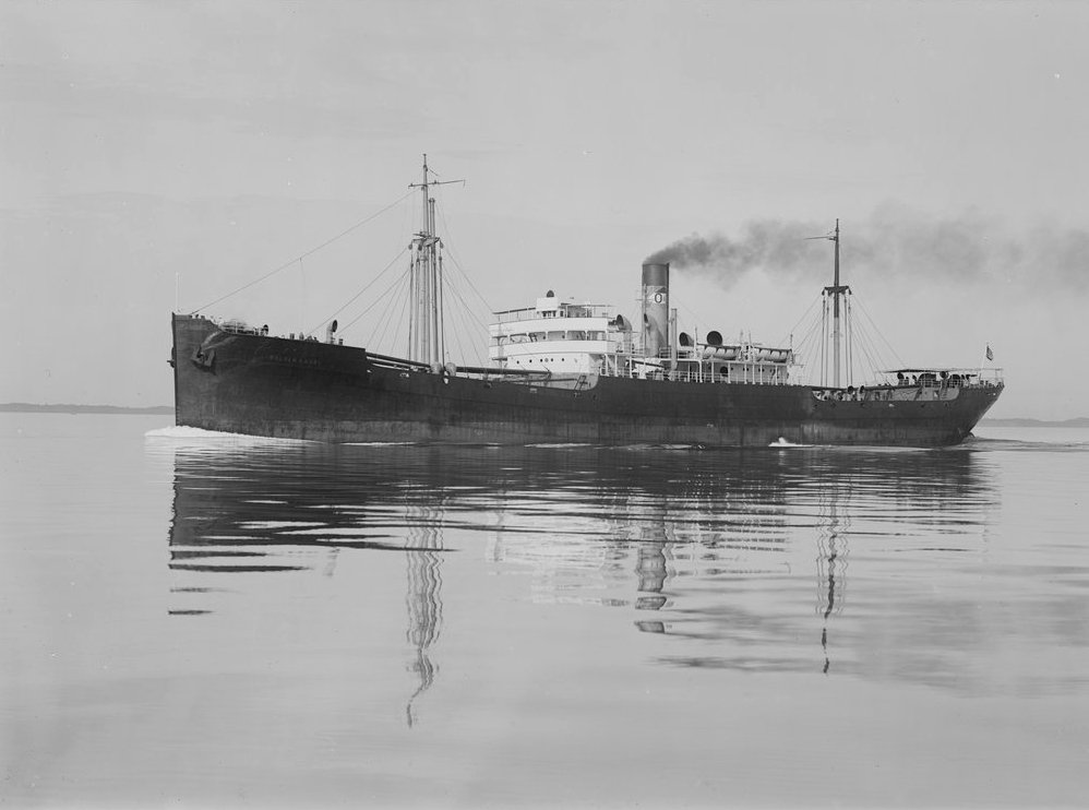 SS Golden Kauri underway, date unknown. Built in 1918 by Skinner & Eddy Corporation at Seattle, Washington, for the U.S. Shipping Board, as SS West Elcajon (American Freighter, 1918), renamed Golden Kauri, Waipio and Paralos II.